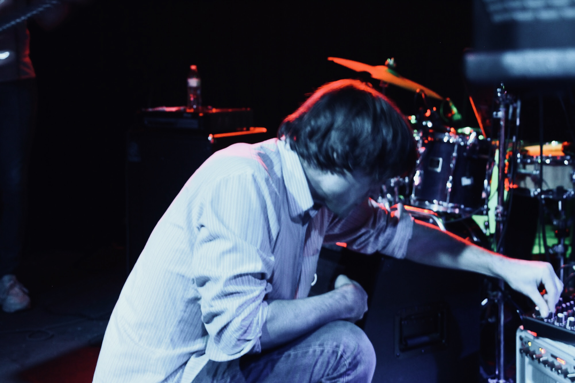 John Maus ::: Marquis Theater ::: 01.19.18